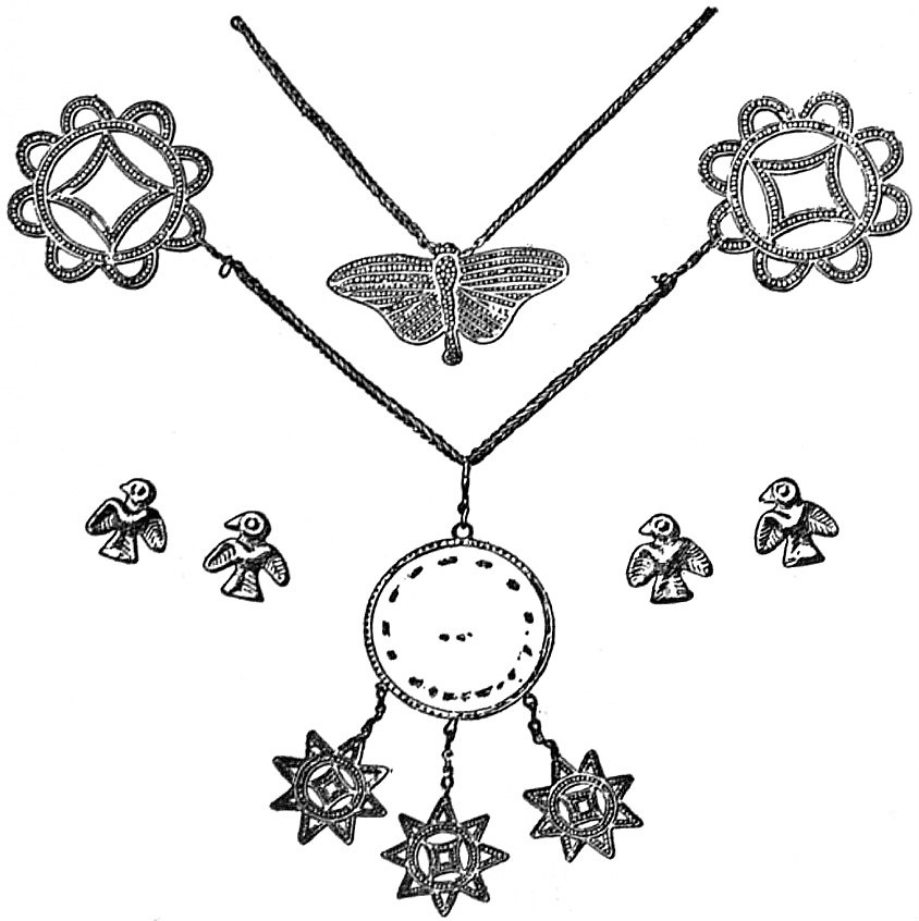 Ancient Egyptian jewelry - earliest instance of granulated work, with small grains of gold, soldered on a flat surface